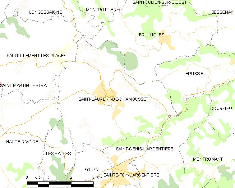 Map of French municipality